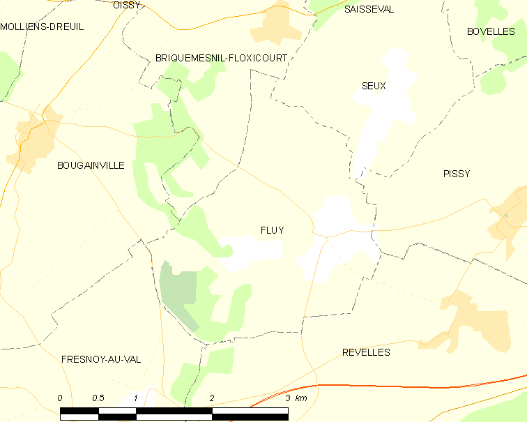 Map of French municipality Fluy